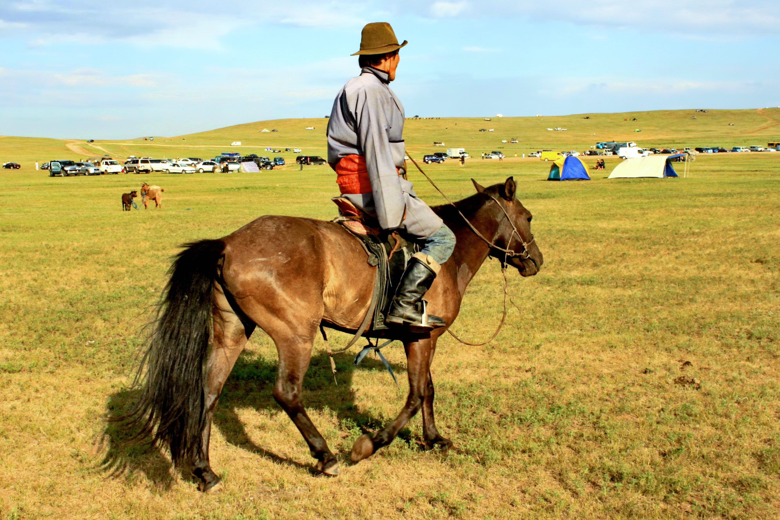 Naadam festival on the steppe, on the outskirts of Ulan Bator. Mongolia. Rider on Mongolian horse.